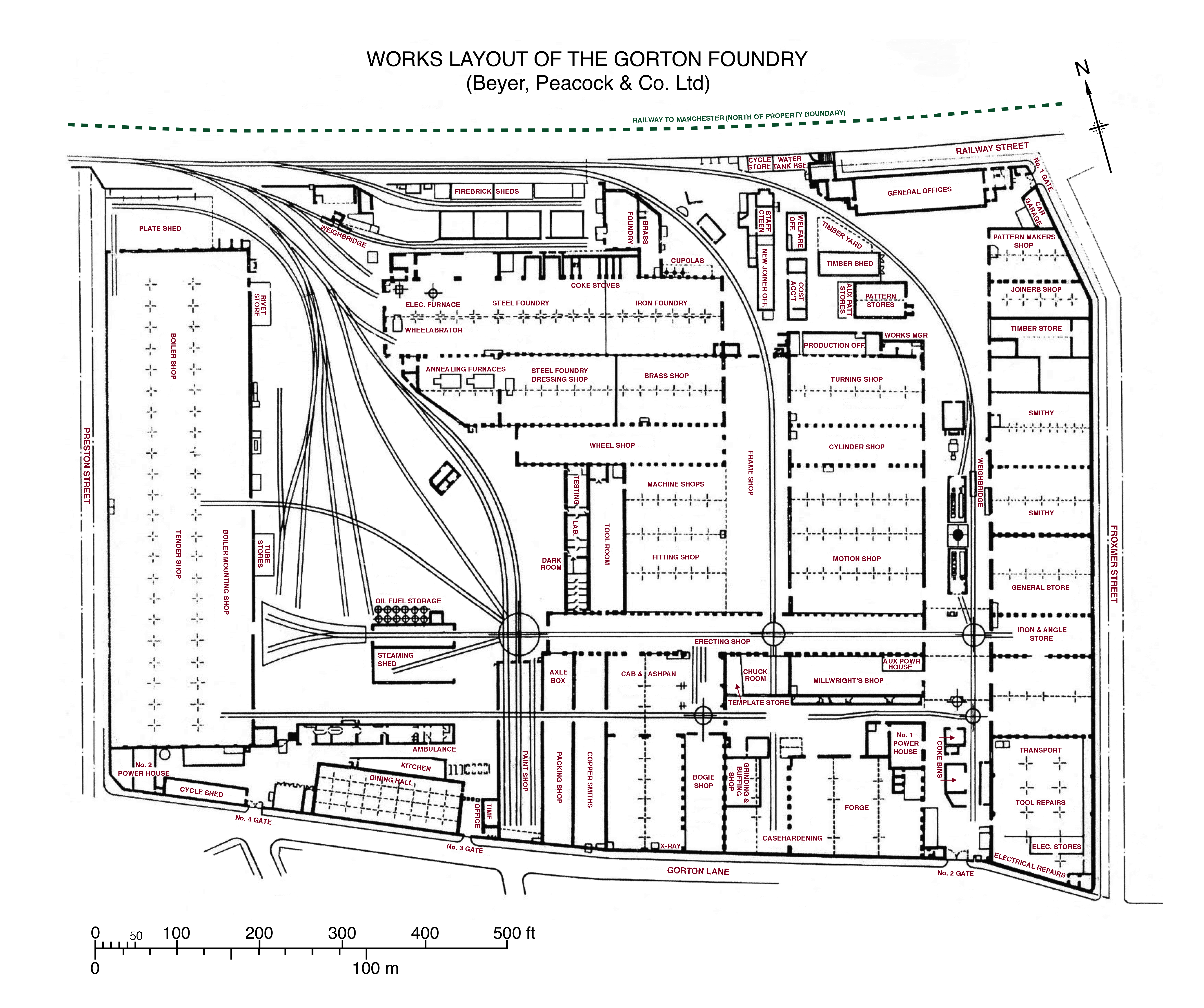 Plan of the layout of the 22 acre (8.9 hectare) Gorton Foundry workshops of Beyer, Peacock and Co. Ltd, Manchester, showing the locomotive manufacturing processes undertaken in the various buildings.